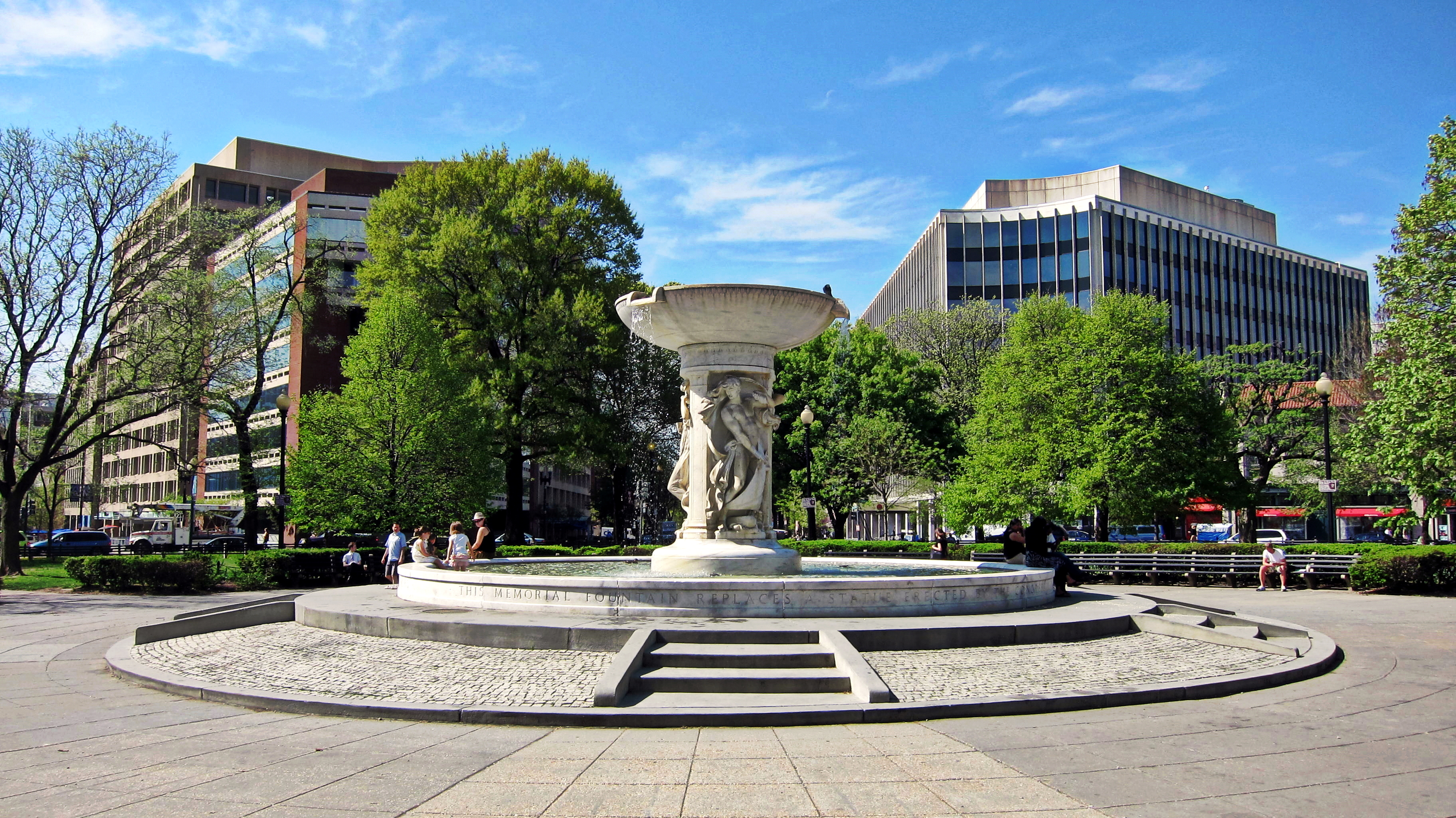 The Dupont Circle fountain, located at the center of Dupont Circle in Washington, D.C. Designed by Henry Bacon and sculpted by Daniel Chester French, the marble fountain is in honor of Rear Admiral Samuel Francis Du Pont. The fountain's shaft features carvings of three classical nudes symbolizing the sea, the stars, and the wind. Sculpted in 1921, the fountain is designated a contributing property to the Dupont Circle Historic District, listed on the National Register of Historic Places in 1978.